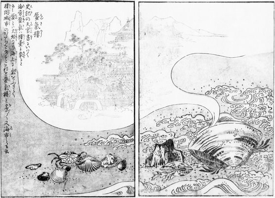 Shinkirō (蜃気楼, a giant clam that creates mirages) from the Konjaku Hyakki Shūi (今昔百鬼拾遺)